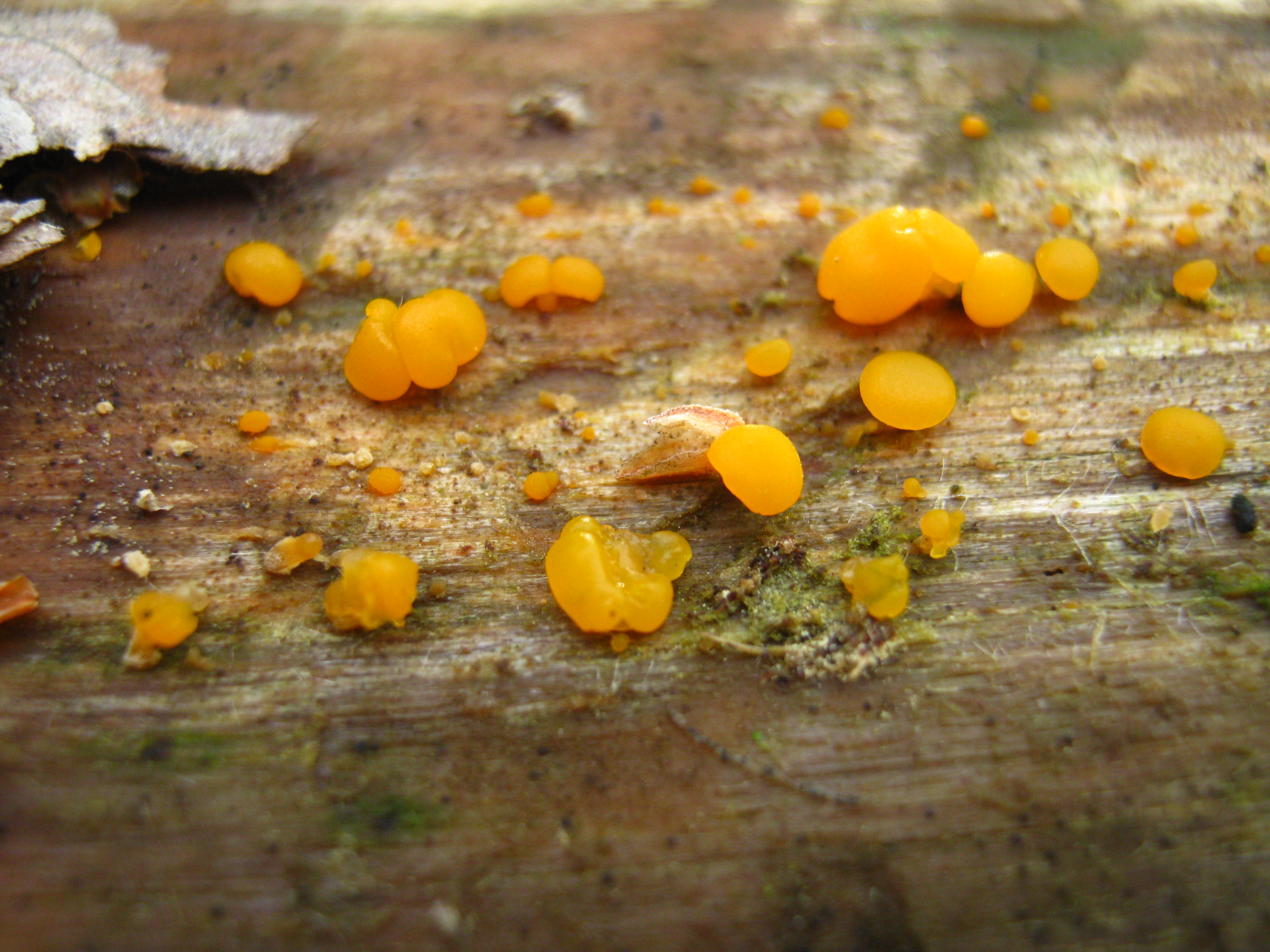 Dacrymyces stillatus Nees Image location: Forest near Elgin St., Pembroke, Ontario, Canada Found on the same log in Zone 09 as last year. Recognized by sight: Smaller, rounded blobs; too orange and too gelatinous to be Bisporella; seen on this log before. For more information about this, see the observation page at Mushroom Observer.